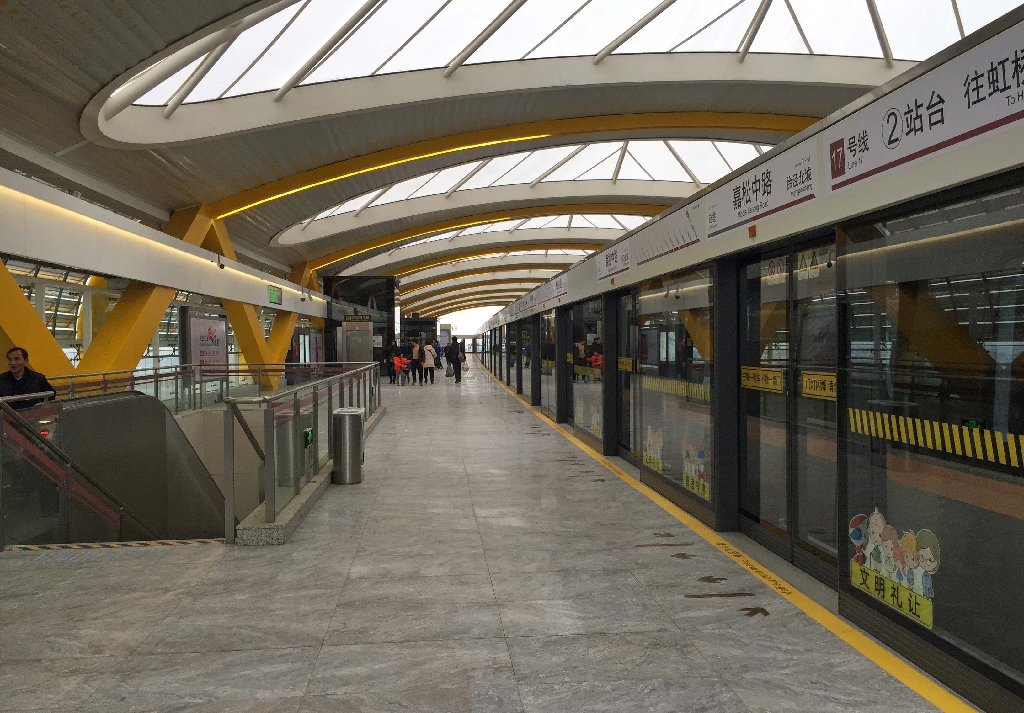 Also a curve platform...